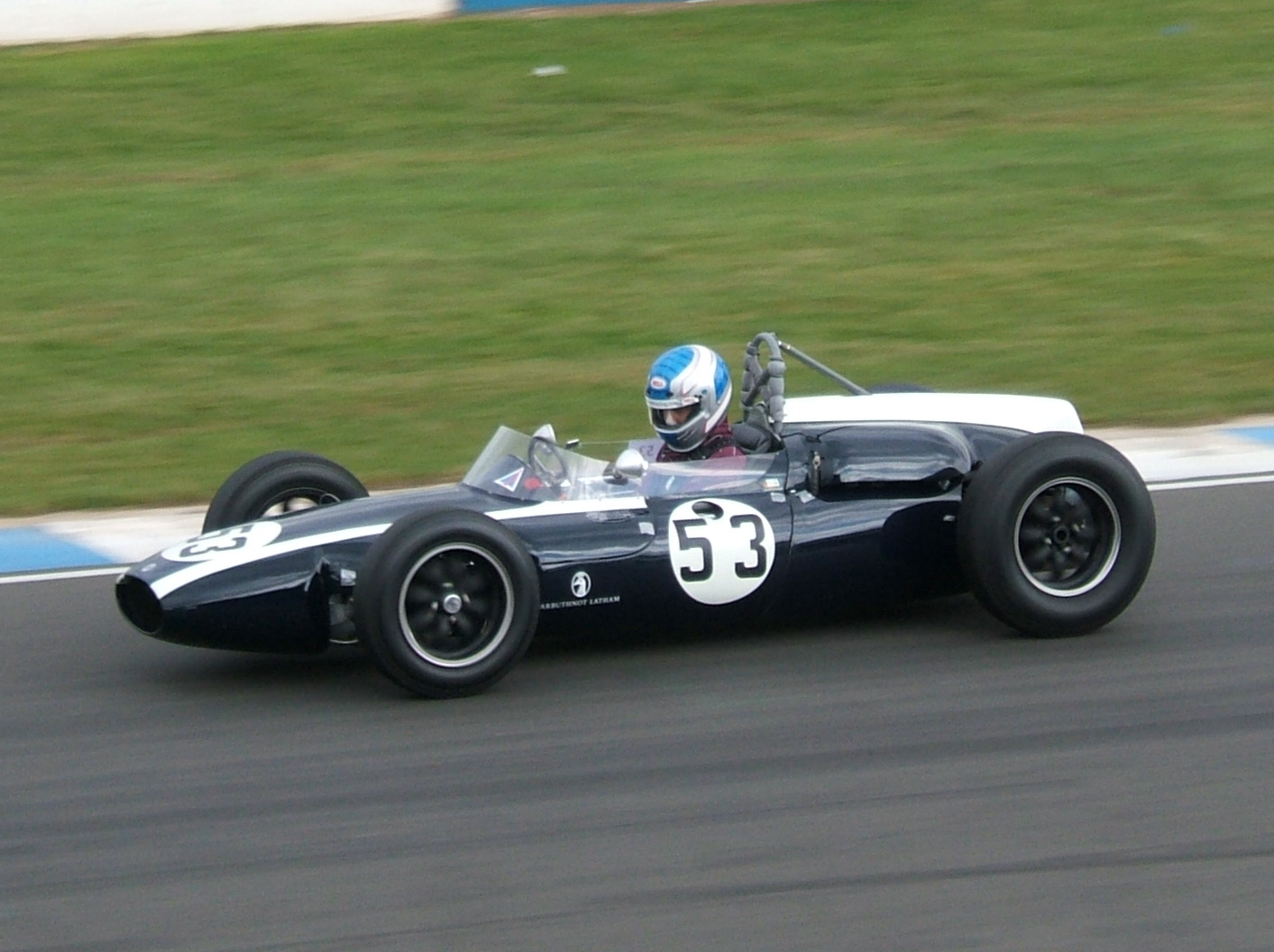 John Fairley's Cooper T53 accelerates on to the Wheatcroft Straight, during the VSCC SeeRed race meeting, Donington Park, September 2007.